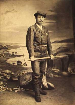 Carl Christian Hall, Jr. (1848-1908), Danish journalist and mountaineer